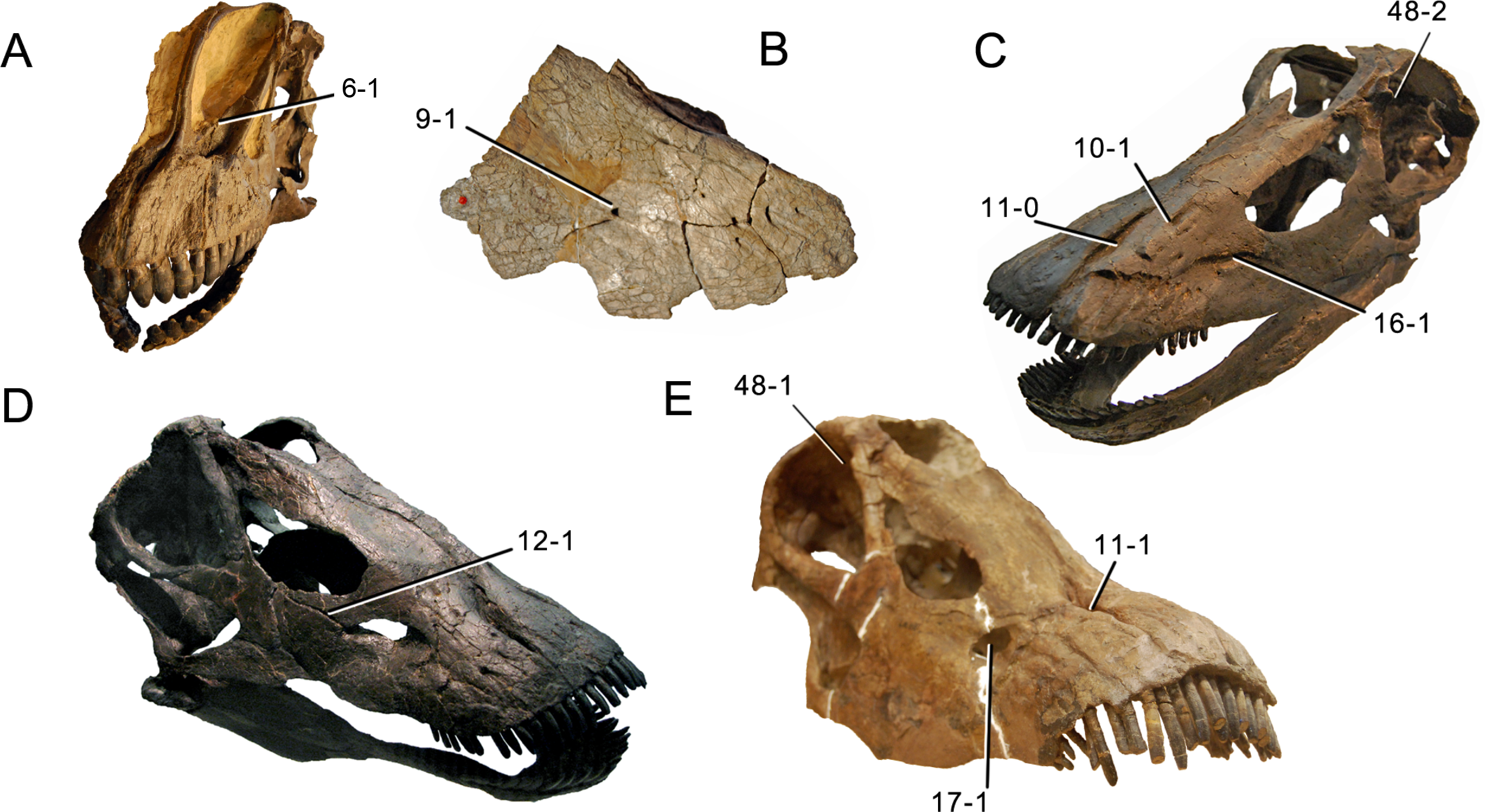 Sauropod skulls. Skulls (A, C–E) or maxilla (B) of Camarasaurus sp. SMA 0002 (A) Dicraeosaurus hansemanni MB.R.2336 (B) Kaatedocus siberi SMA 0004 (C) Galeamopus sp. SMA 0011 (D) and Diplodocus sp. CM 11161 (E) in anterolateral view, illustrating the states of the characters 6, 9, 10, 11, 12, 16, 17, 48. Not to scale.